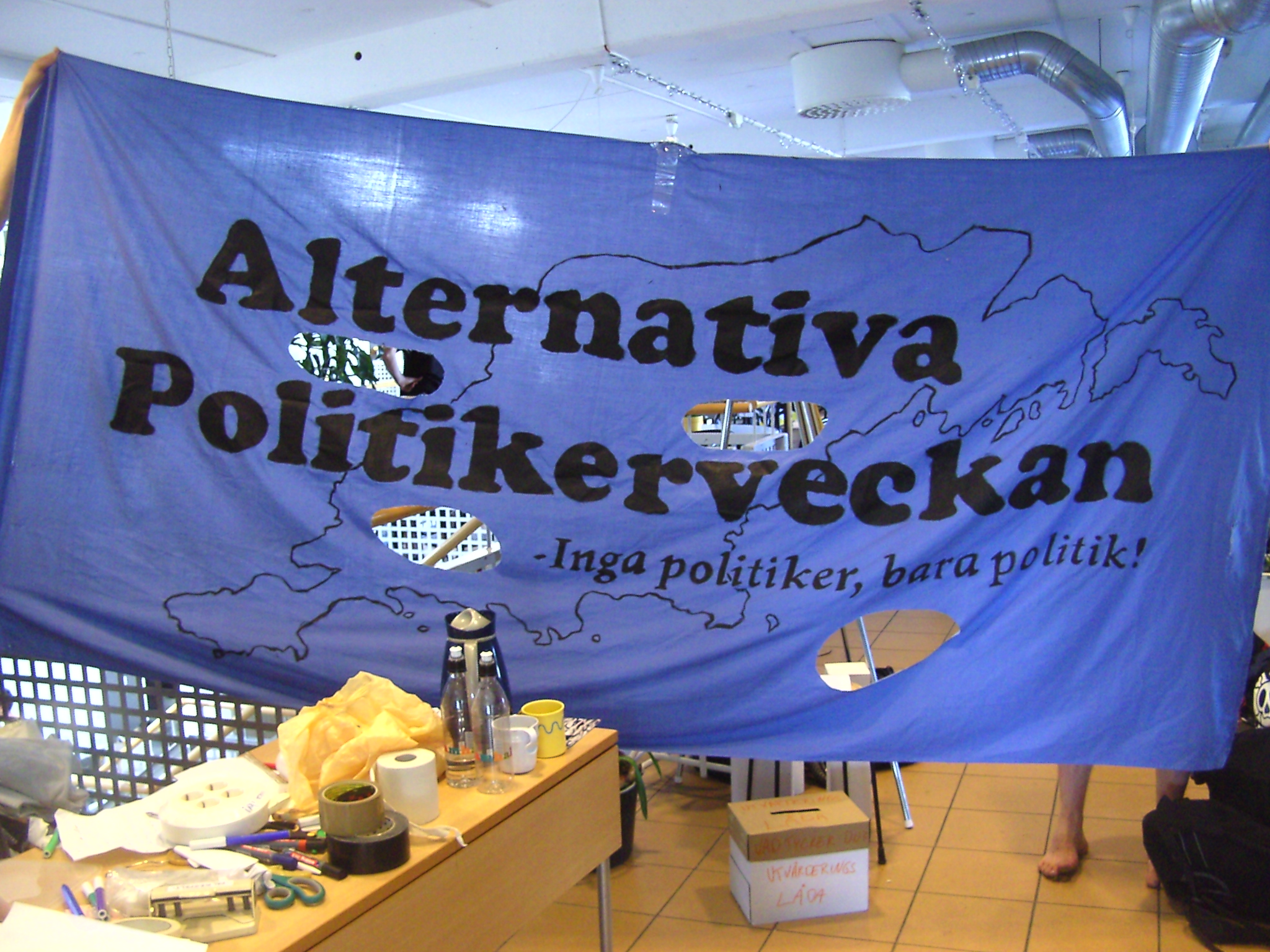 An Alternativa politikerveckan ("Alternative Politics Week") banner from 2008.